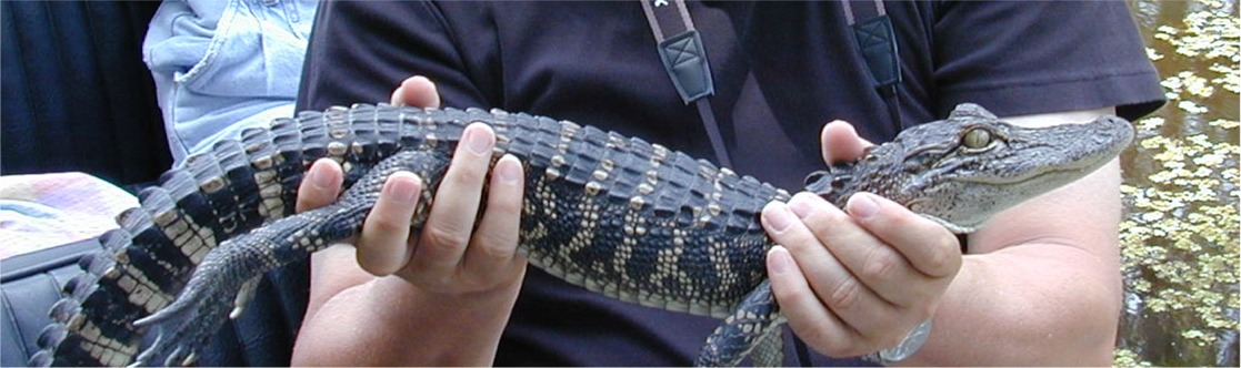 Alligator mississippiensis, about 2 years old